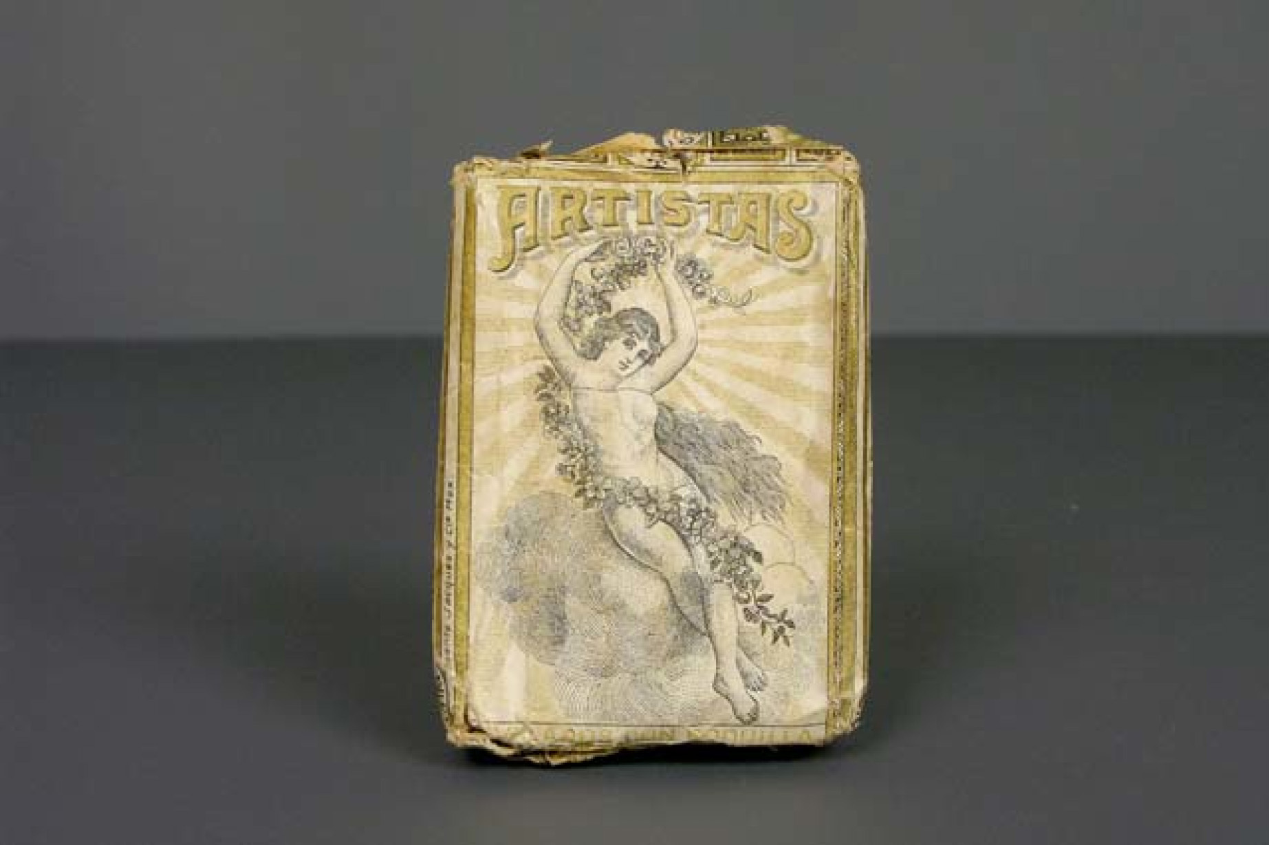 Artistas brand cigarettes from Mexico package from the first half of the 20th century